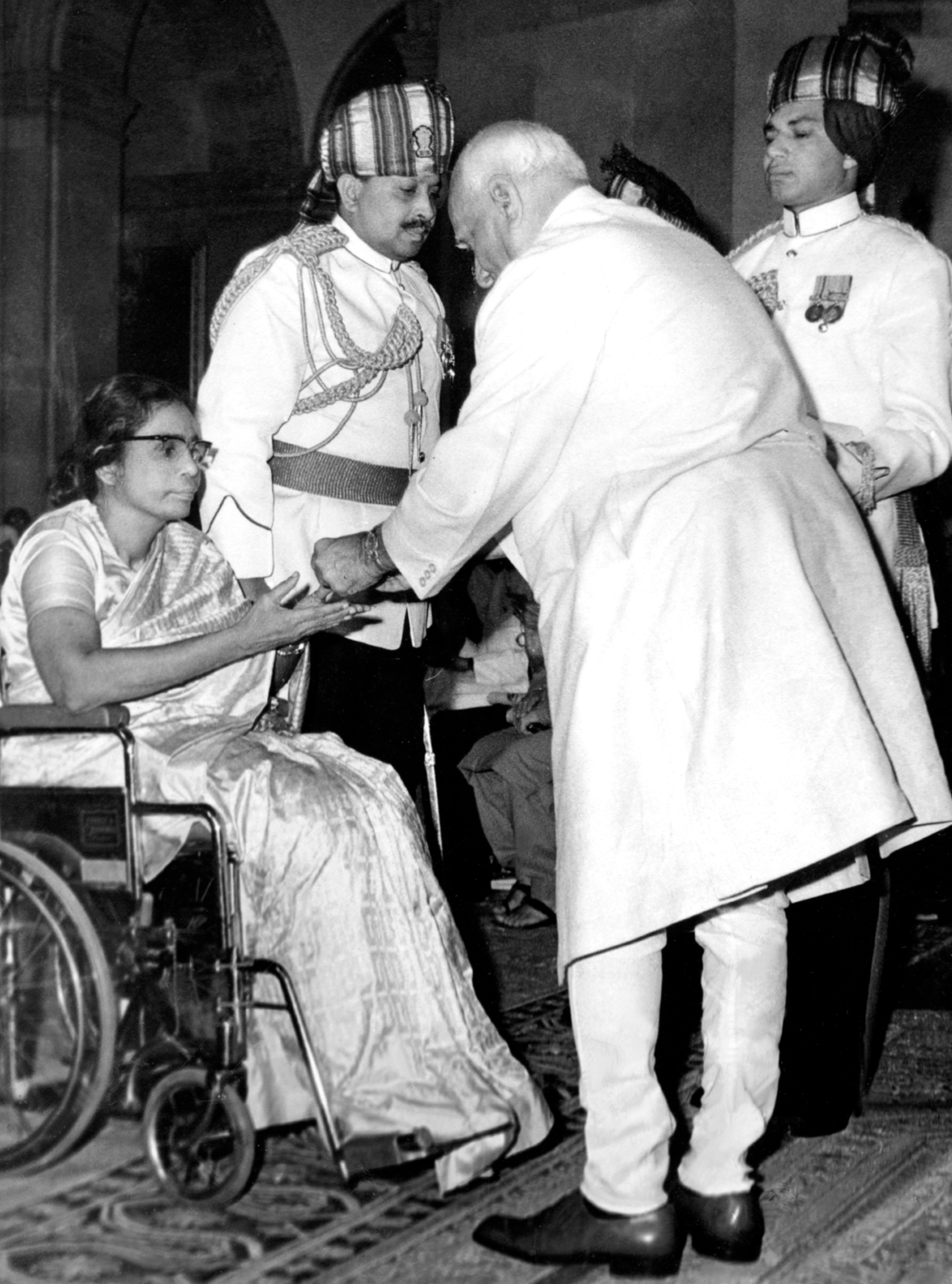 Dr VV Giri, the then President of India, awarding the Padma Shri award to Dr. Mary Verghese in 1972